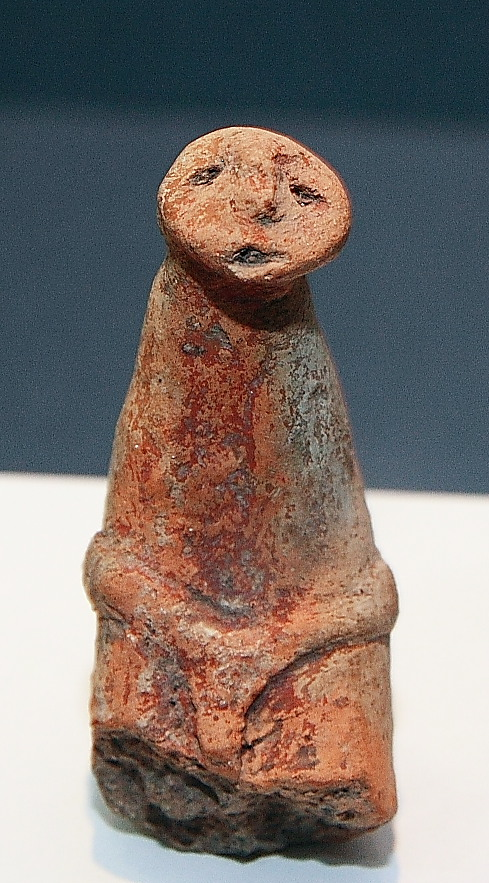 Cucuteni Culture male clay figure Piatra Neamt museum